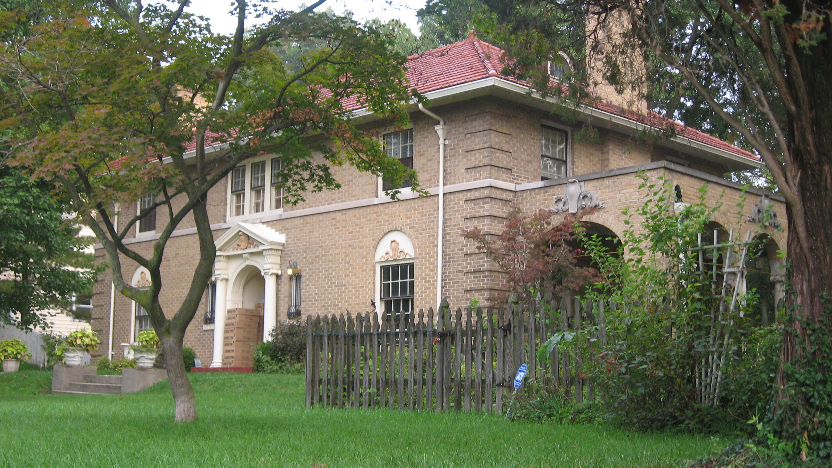 Front of the house at 717 Kenilworth Avenue in Dayton, Ohio, United States. It is part of the Kenilworth Avenue Historic District, a historic district that is listed on the National Register of Historic Places.